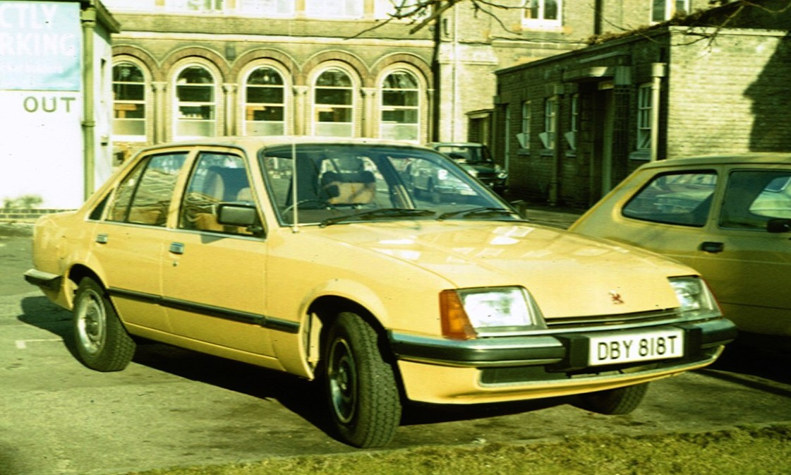 An early Vauxhall Carlton, derived from the Opel Rekord E1. Downing Site, Cambridge